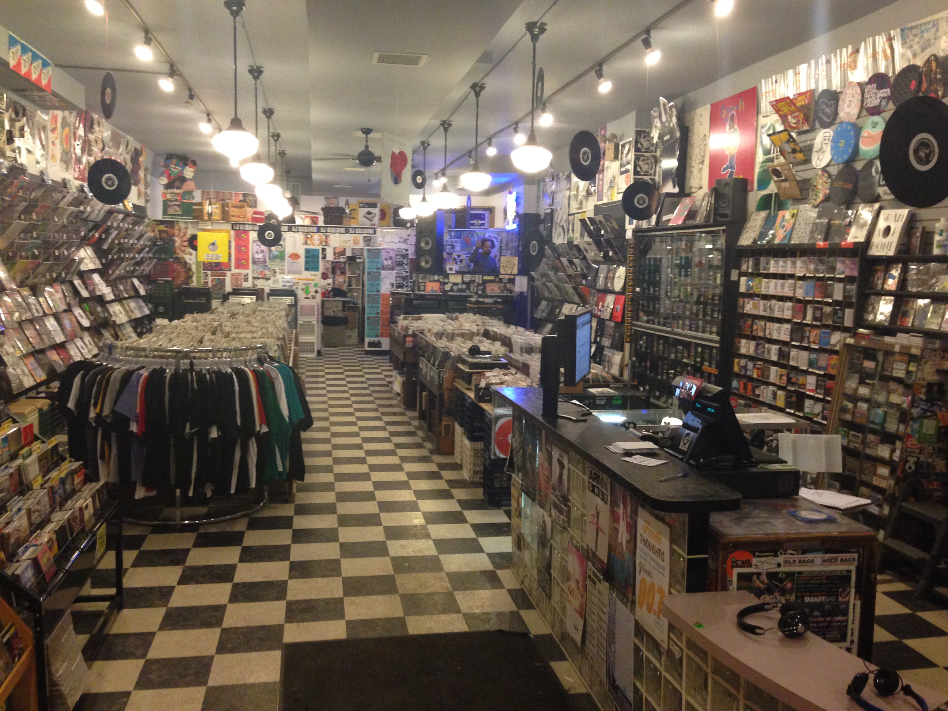 grammaphone records Chicago interior